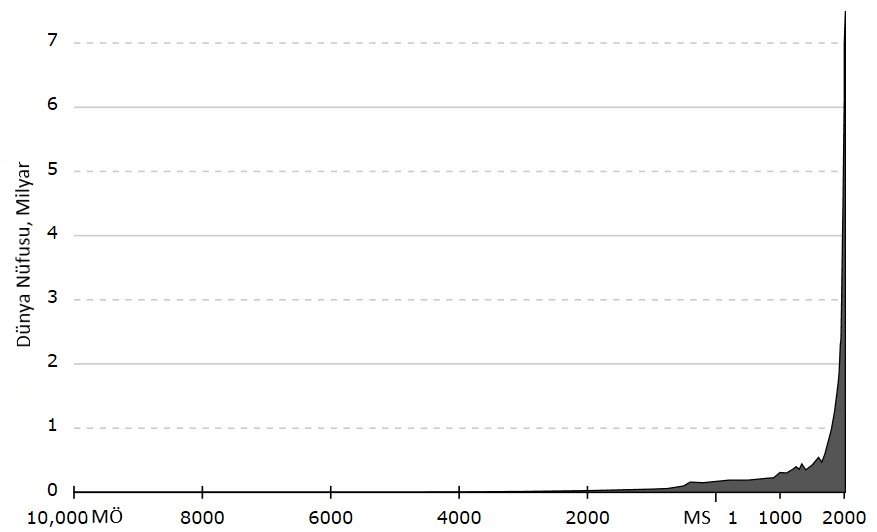 Turkish translation of the File:World Population.svg by EI T